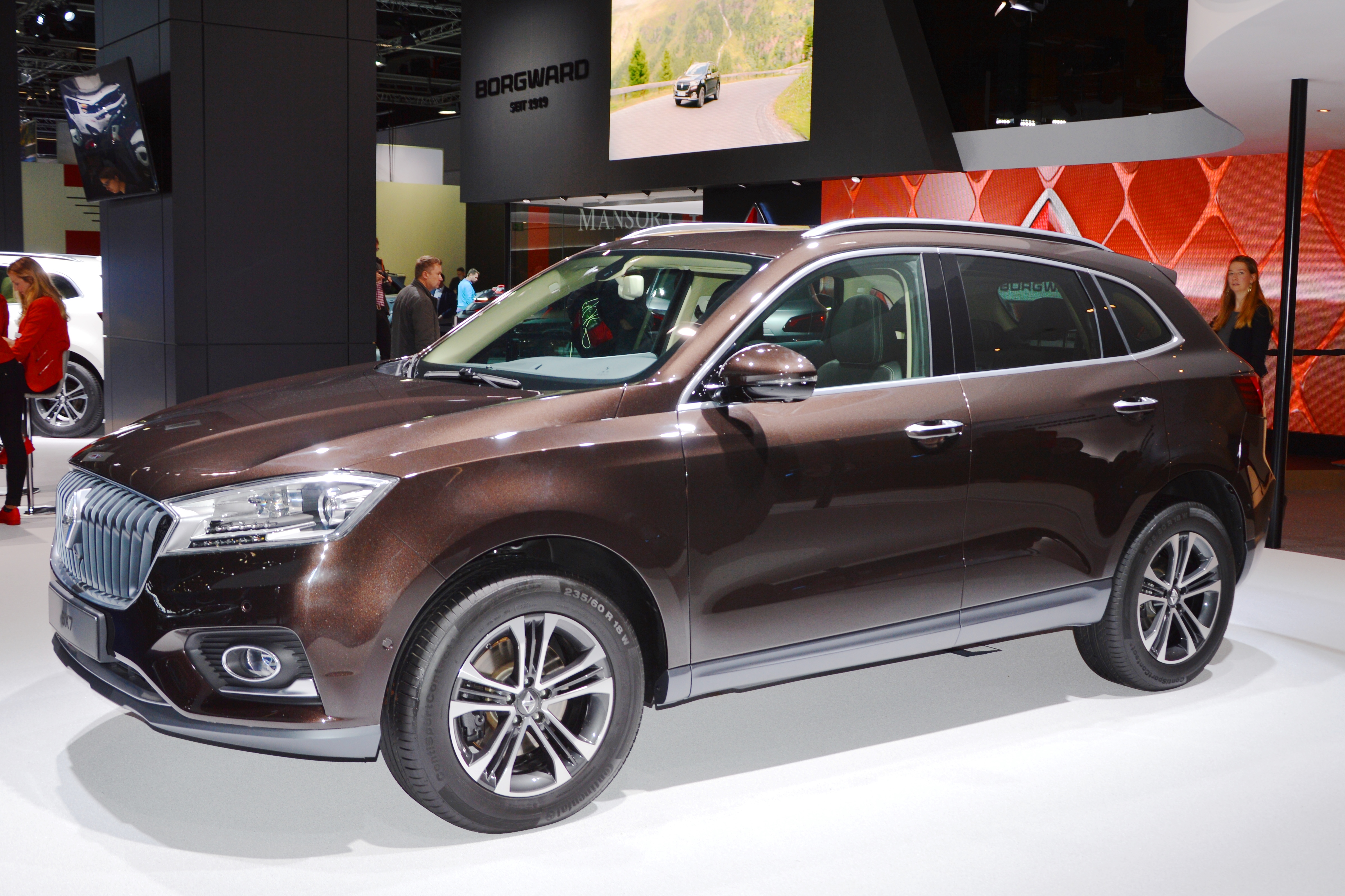 Borgward BX 7. Photo taken at exhibition IAA 2015 in Frankfurt, Germany.